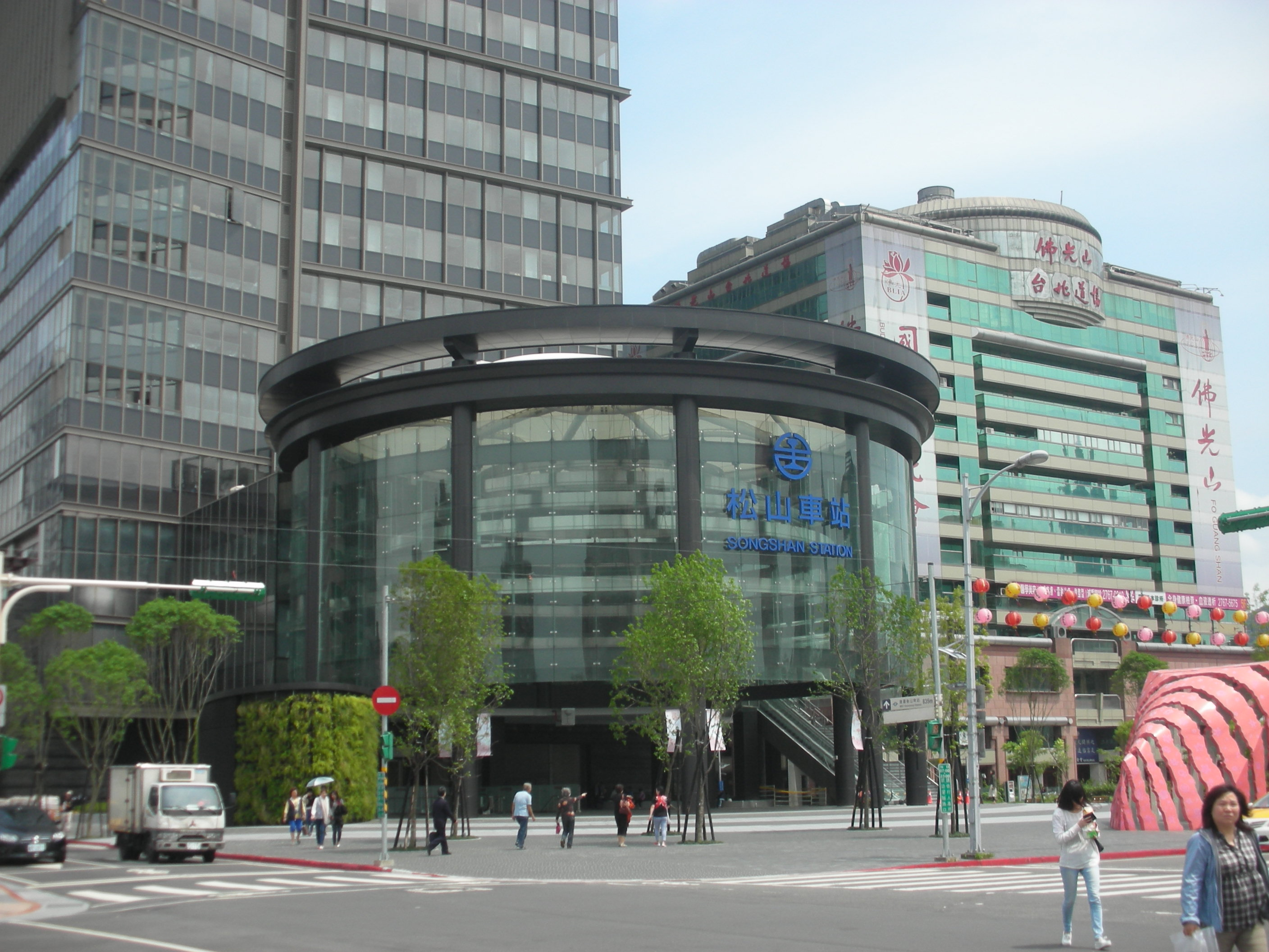 TRA Songshan Station and Fo Guang Shan Taipei Vihara.